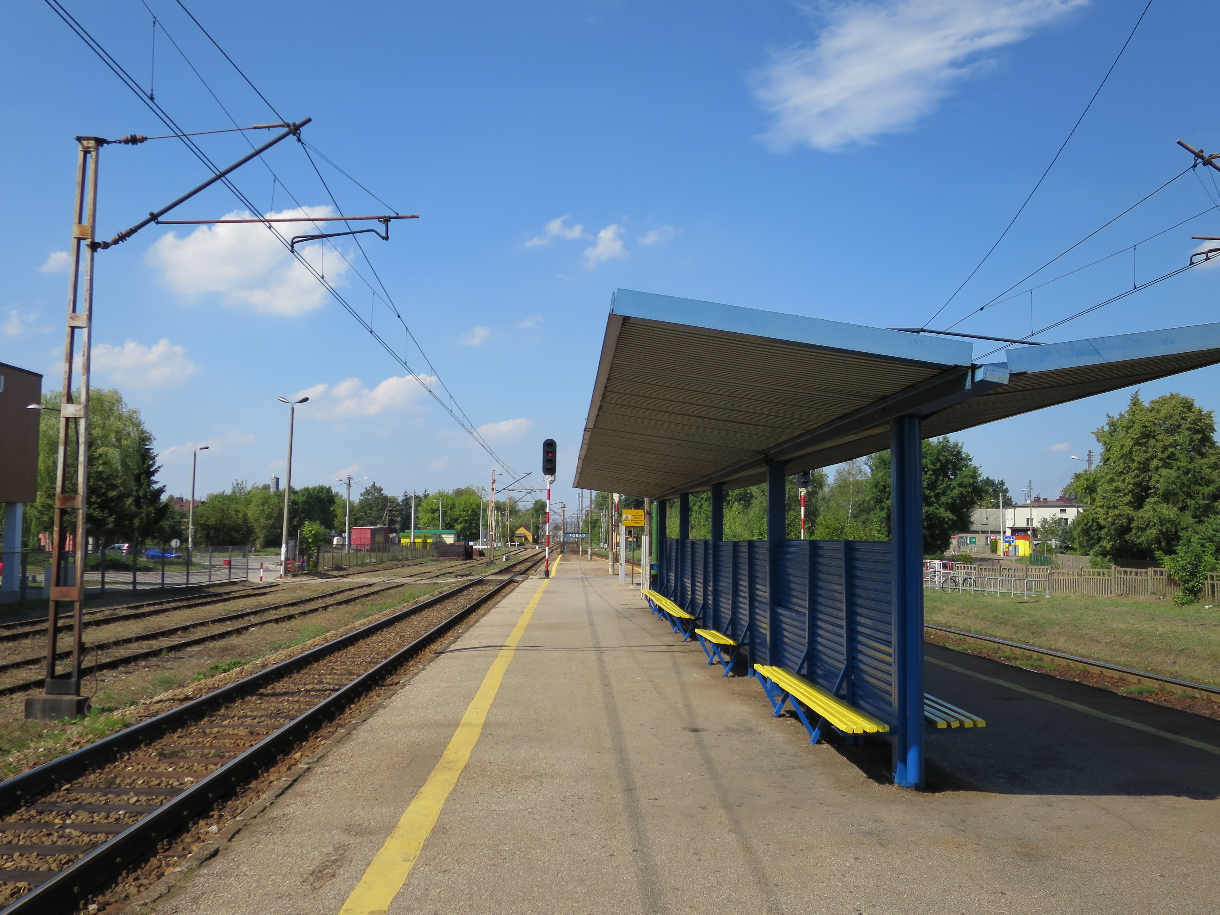 Poraj This photo was taken during Railway Wikiexpedition 2015 set up by Wikimedia Polska Association in cooperation with Fundacja Grupy PKP. You can see all photographs in category Wikiekspedycja kolejowa 2015.